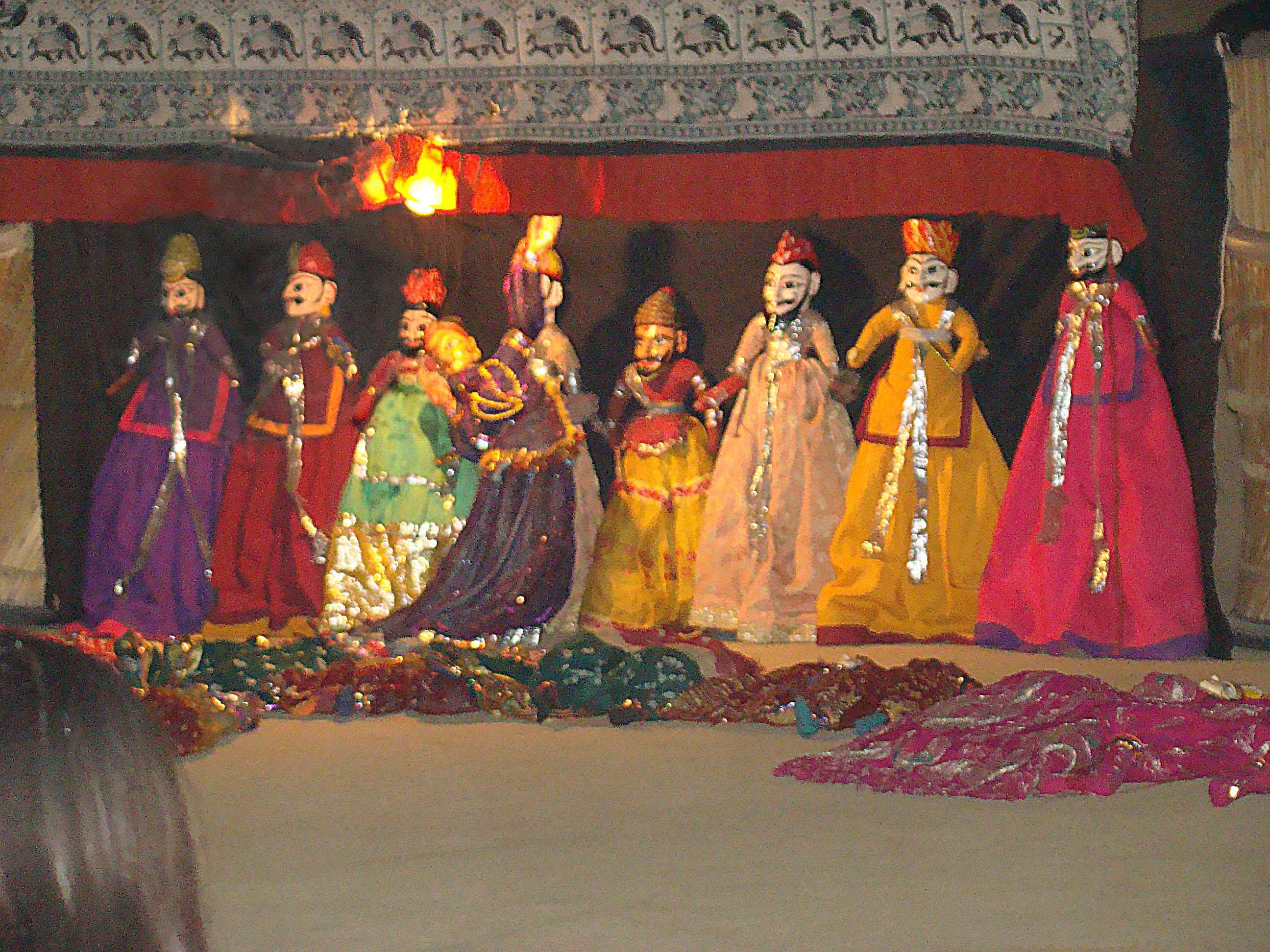 Typical puppets in the area.